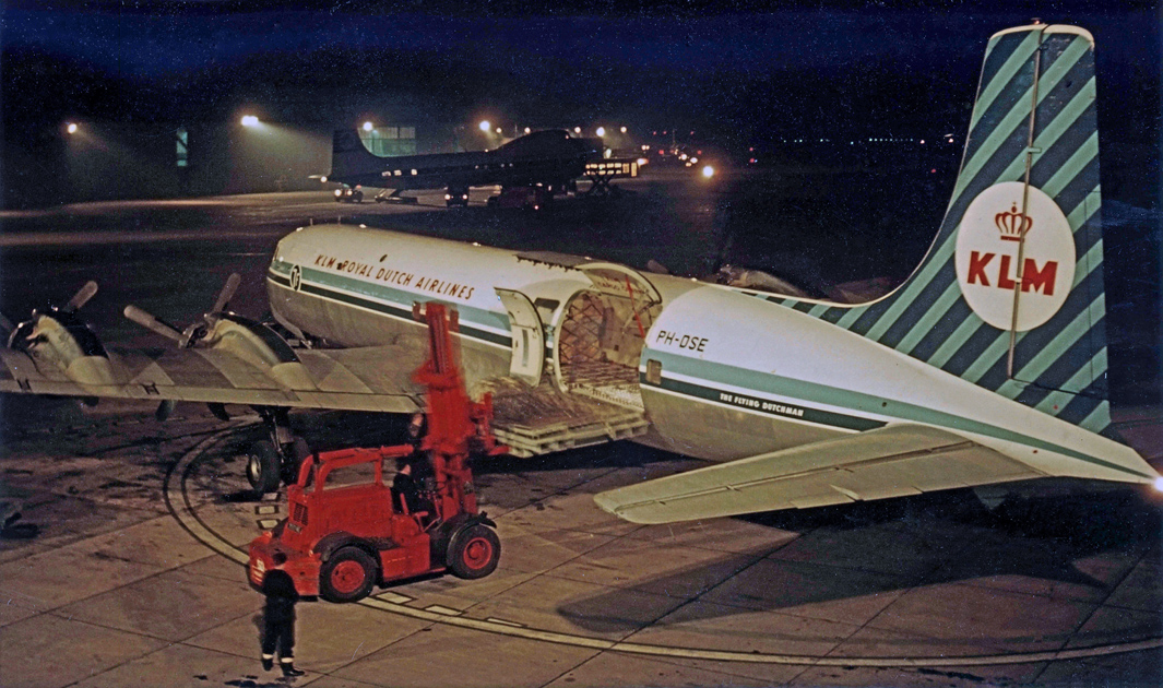 Douglas DC-7CF freighter PH-DSE of KLM loading cargo at Manchester Airport England in 1964